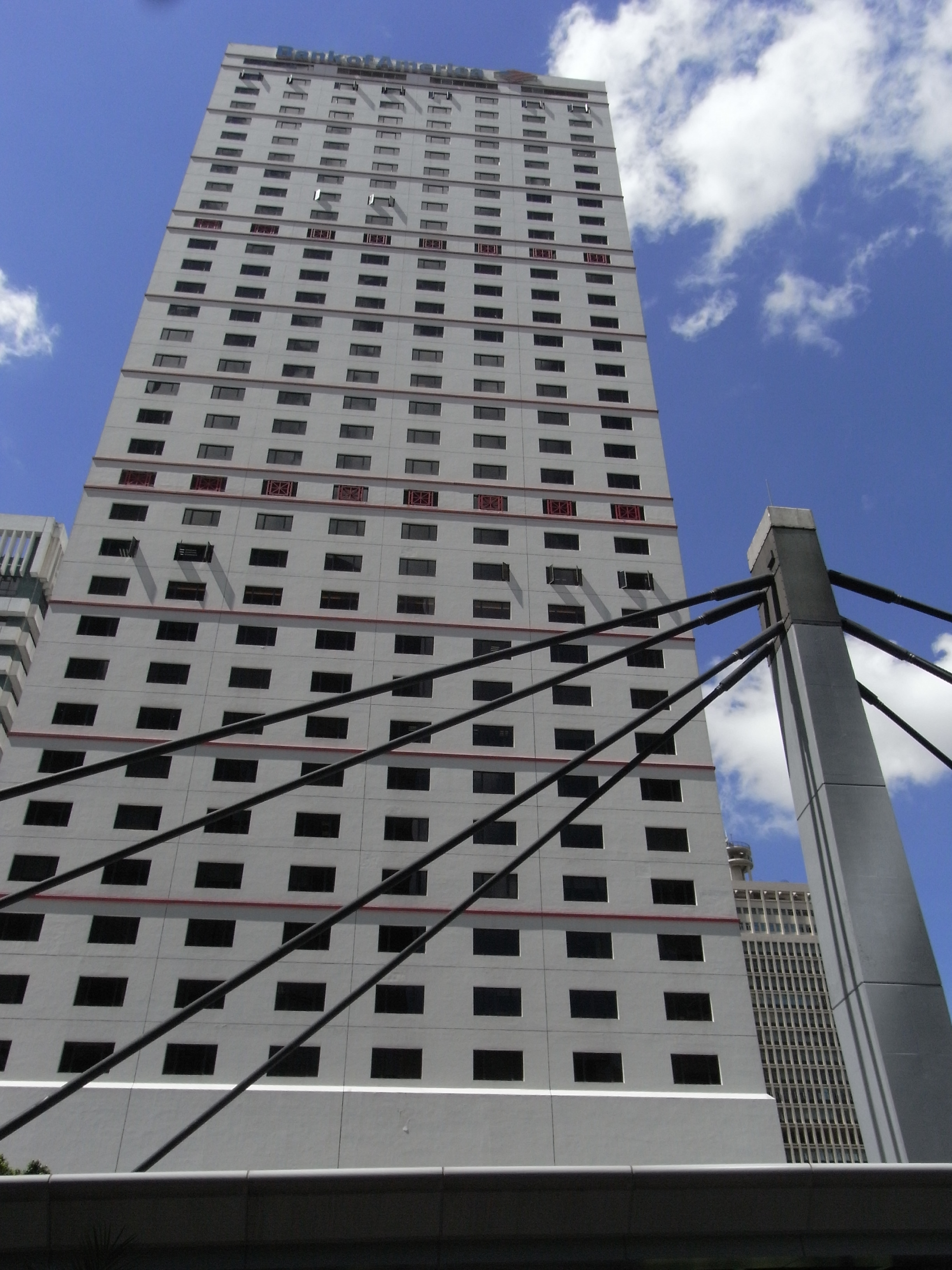 金鐘2010年7月 美國銀行中心 (香港)